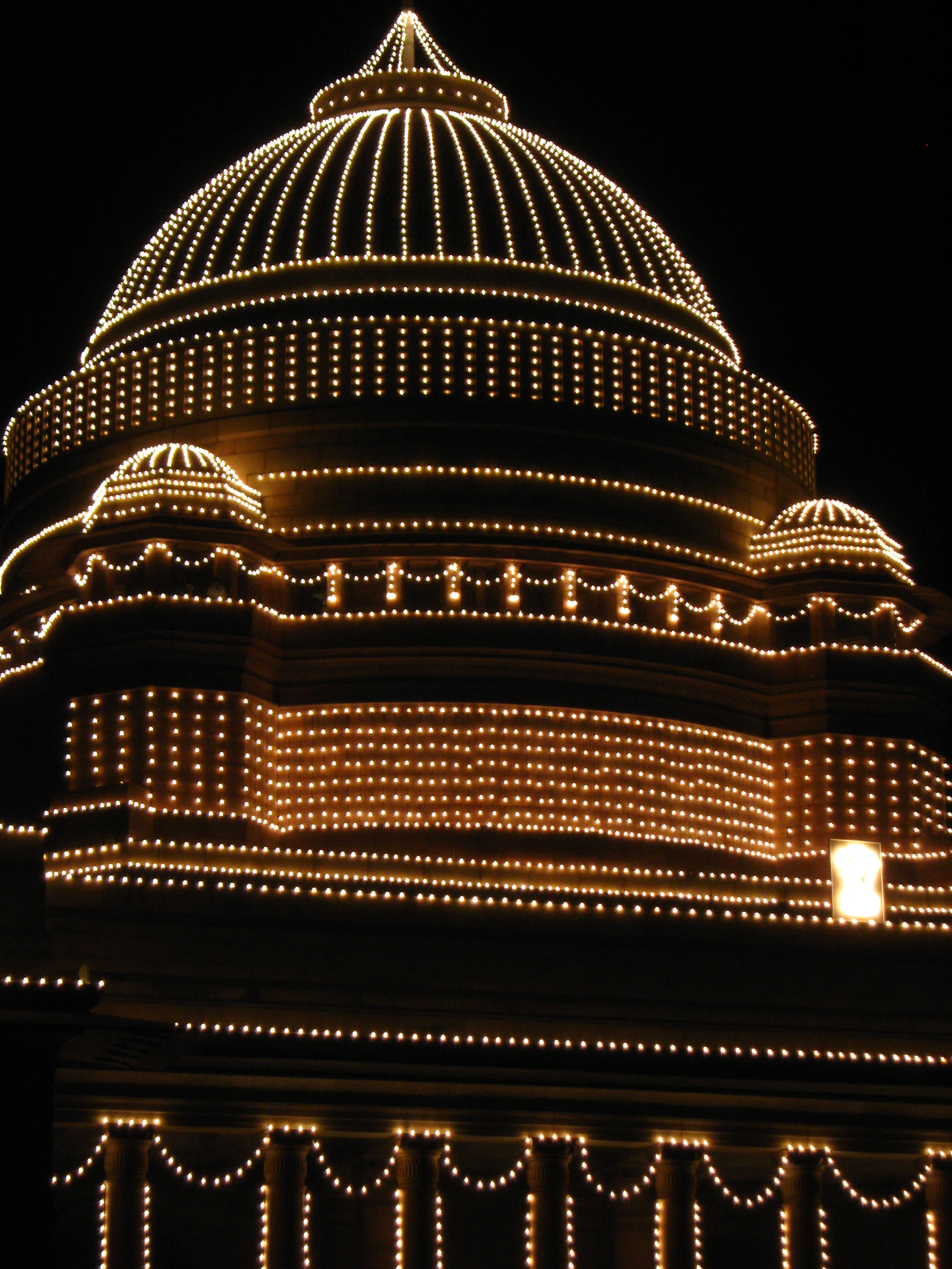 Rashtrapati Bhawan illuminated on 26-29 Jan, every year on occasion of Indian Republic Day Anniversary.